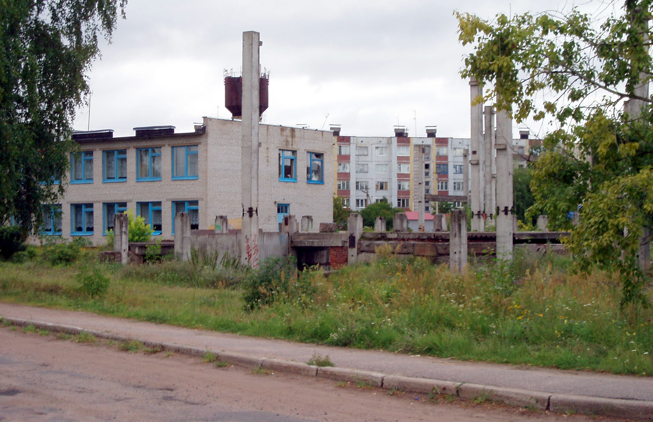 Bolsjoje Kuzemkino in Kingiseppskij rajon in Leningradskaja oblast, Russia